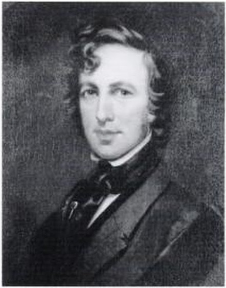 Self-Portrait by James Hamilton Shegogue. Date is given in source as c. 1844.